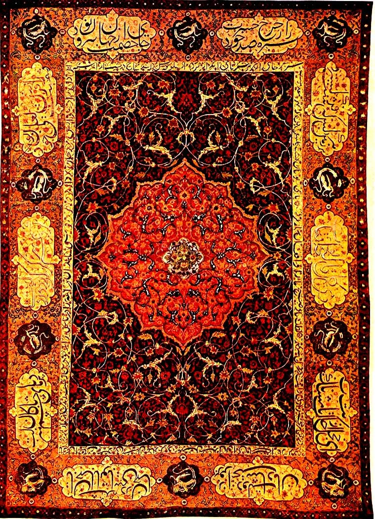 Tebriz rug, Tebriz school, XVIII c.